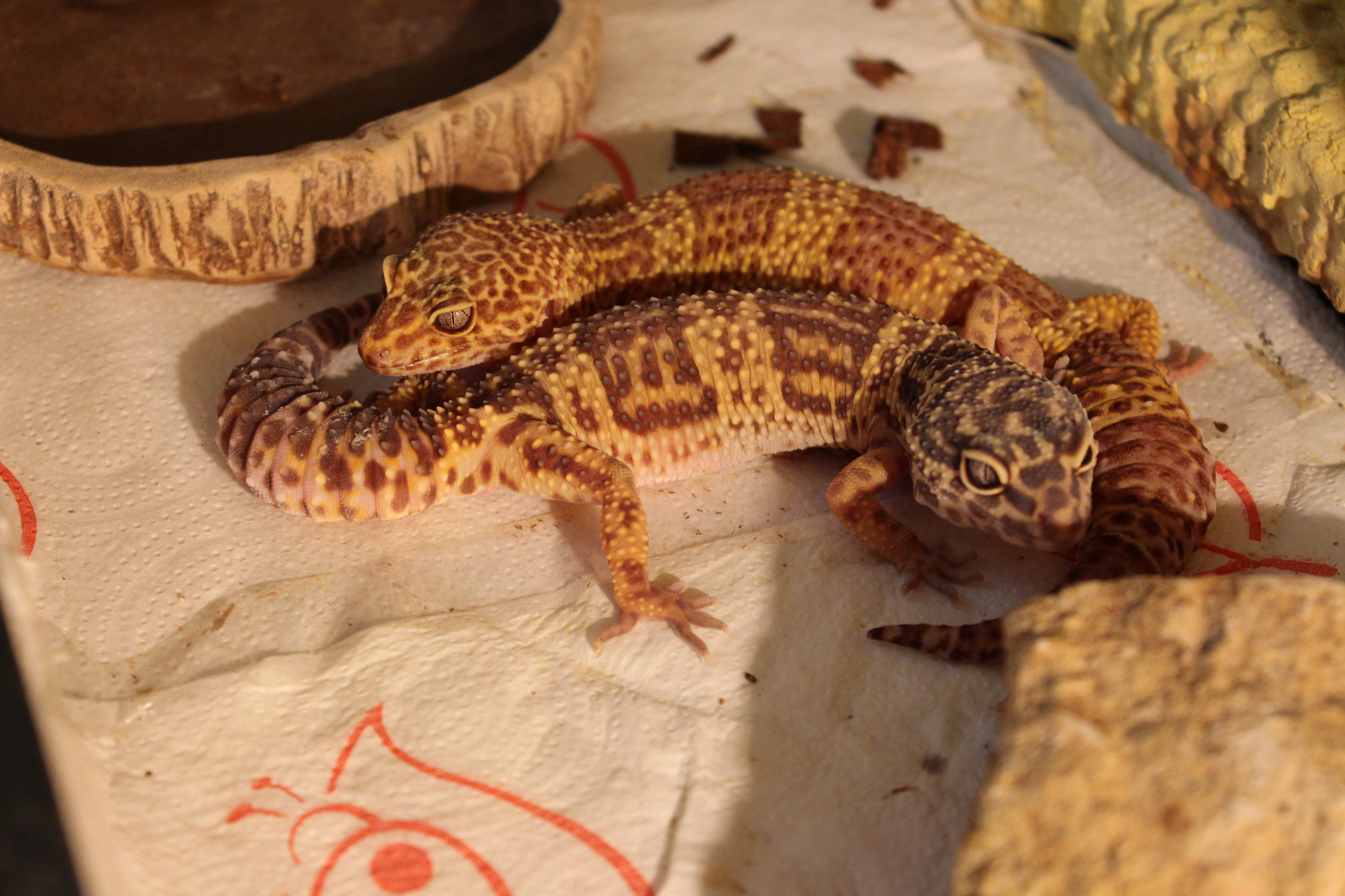 This picture shows my two leopard gecko (Natsu and Grandine) resting during the day